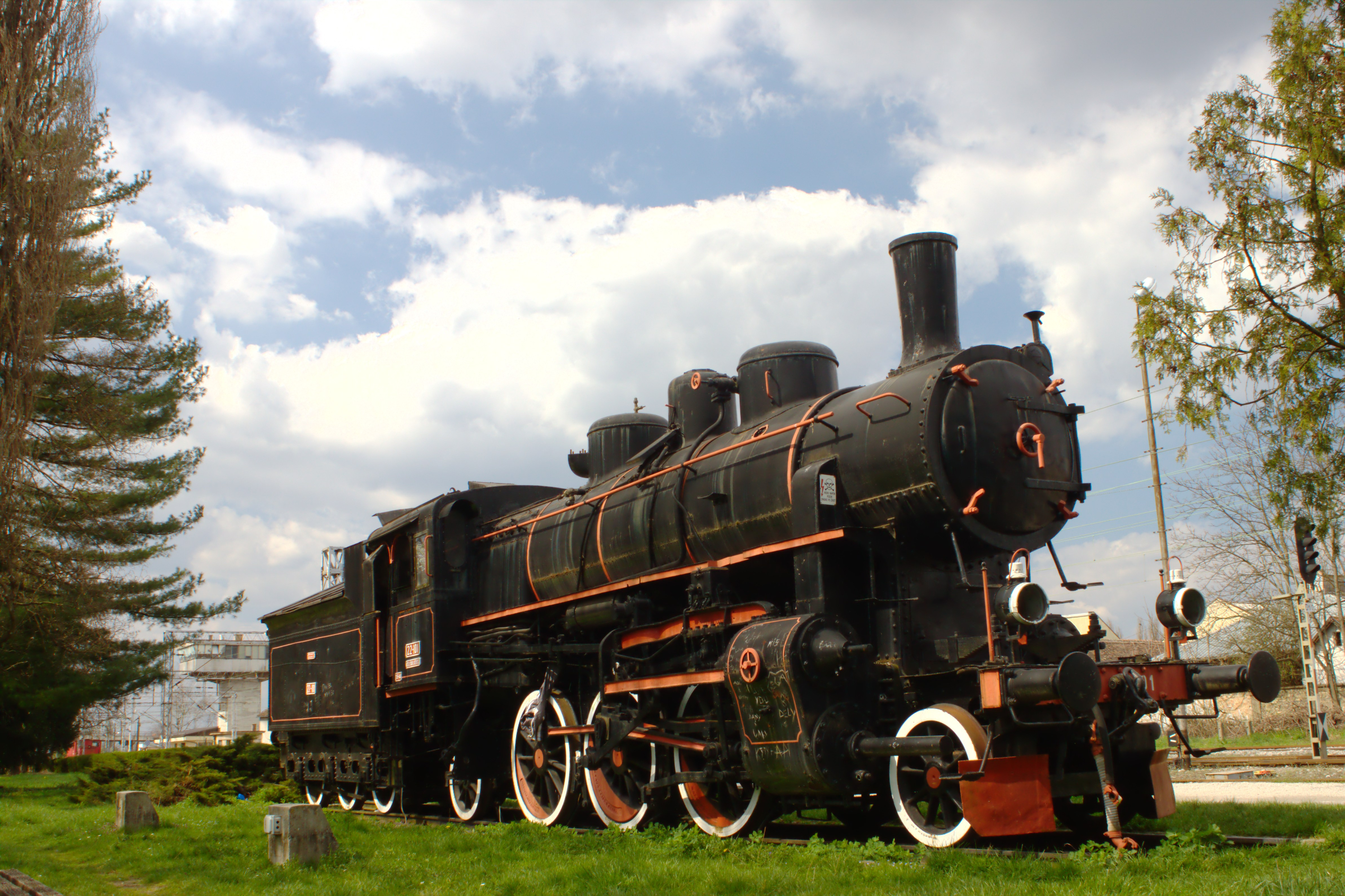 Steam locomotive JŽ 22-101 on a public display in front of the Sisak railway station building, Croatia